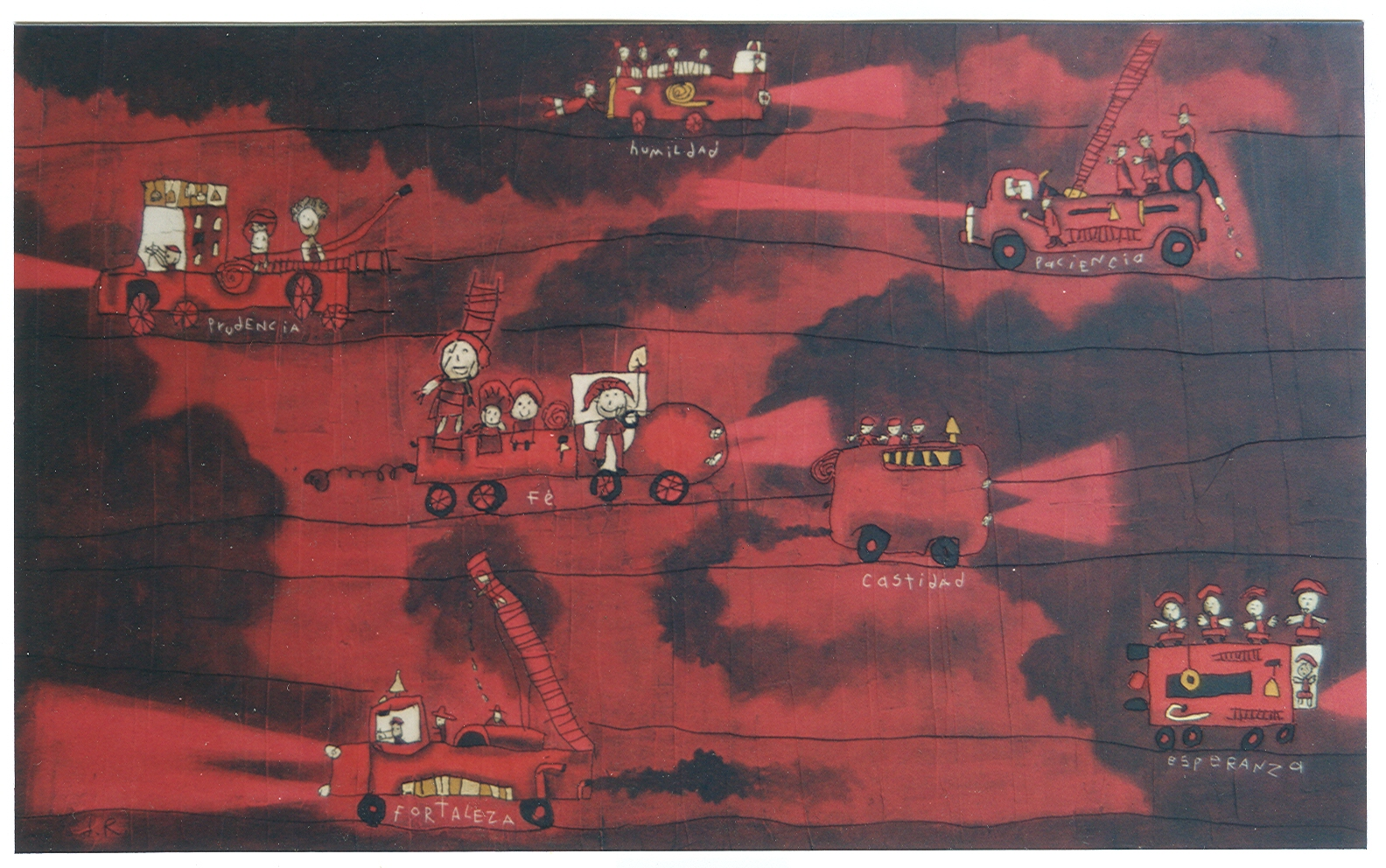 Painting in mixed media on wood.